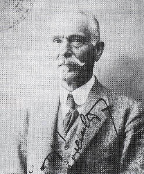 Panta Mihajlović